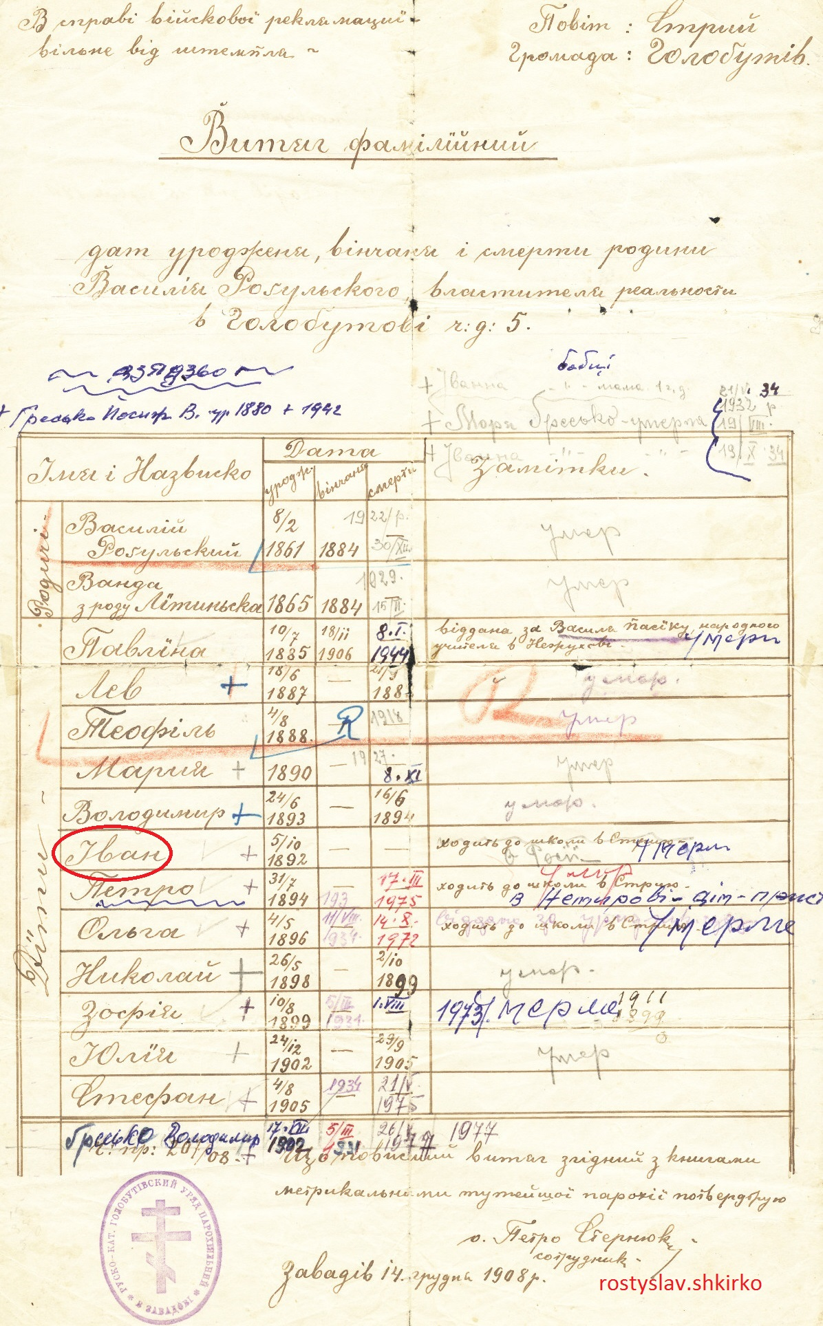 List with the names of the children of Vasyl Rogulski and his wife Wanda Litynska (first two lines of the list), including date of birth, marriage and death when known. Ivan Rogulski circuled in red.